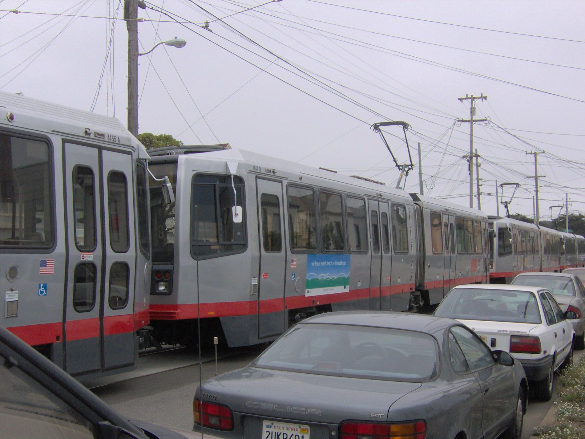 Several Muni Metro cars manufactured by Breda lined up on 47th Avenue near Wawona, at the end of the L Taraval line Photo taken by Octoferret on July 27th, 2005